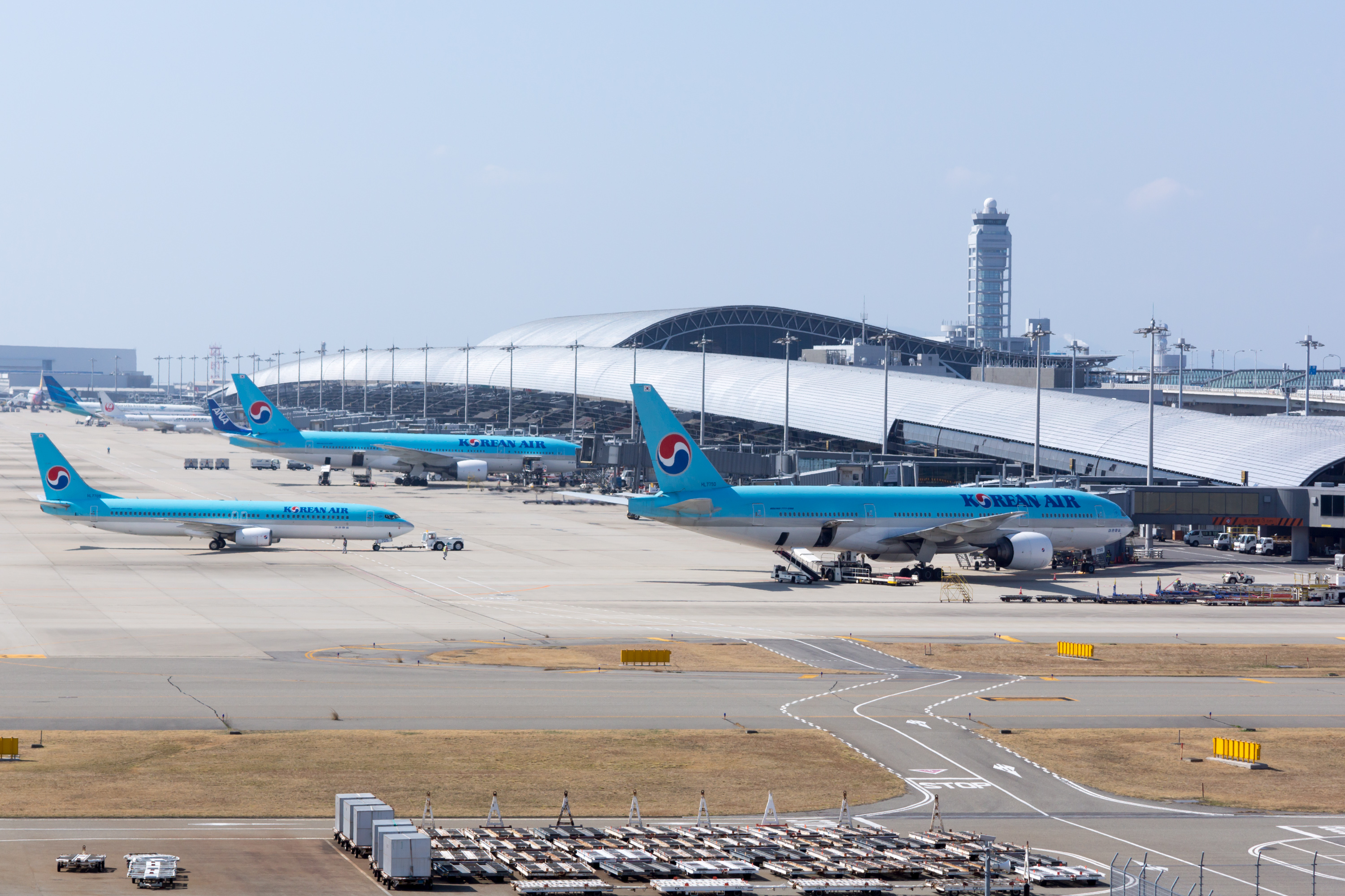 Kansai Airport terminal 1 ,from the top of observation hall "sky view"